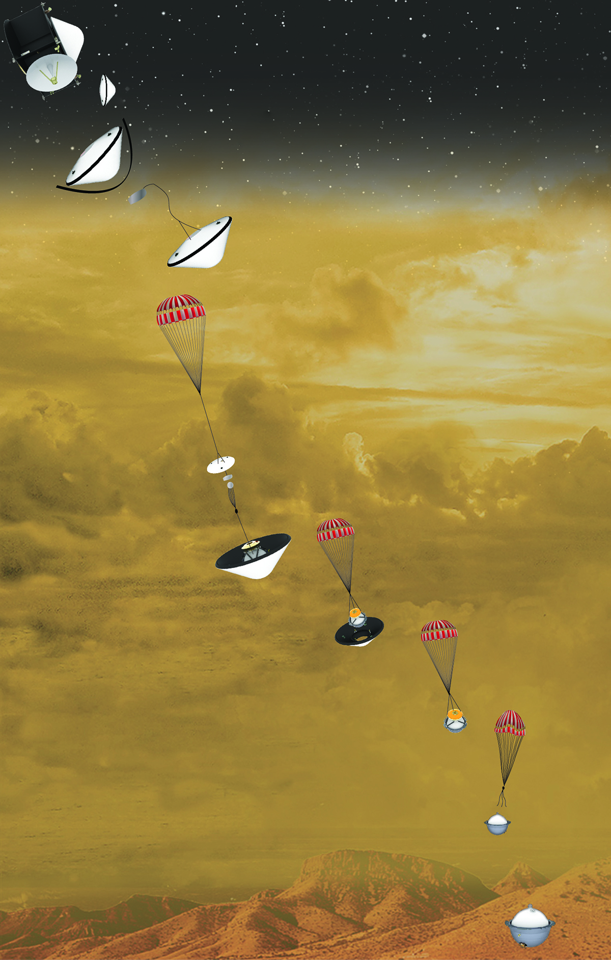 Artist's conception of DAVINCI probe descent stages